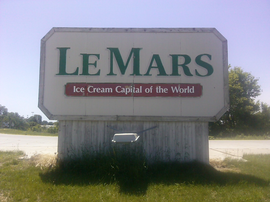 Entrance sign to the town of Le Mars, Iowa; "The Ice Cream Capital of the World"